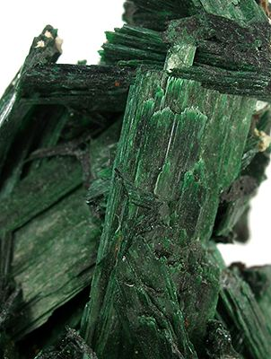 Szenicsite Locality: Jardinera No. 1 Mine, Inca de Oro, Chañaral Province, Atacama Region, Chile (Locality at ) Size: miniature, 4.6 x 3.9 x 2.1 cm Szenicsite It is truly amazing to discover a beautiful new mineral species in today's world, in crystals that can reach several centimeters. This is exactly what happened in the early 1990s with the discovery and naming of Szenicsite, a one-locality, very rare, copper molybdate with ELECTRIC GREEN COLOR. This was the ONLY major find of the species, and not even a trickle of good specimens followed the first few pockets collected by Terry Szenics. All good specimens came through him, and he was close to Steve Neely and sold him a great one for his miniatures collection in 1999 (after which Steve dropped miniatures)....Steve then traded it to Bryan Lees, who sold it to Joe Freilich (whose collection was liquidated at Sotheby's in January of 2002), from whose auction it went back to Bryan Lees and on to Ed David. I just found out all this informaiton from Dr. Neely on updating the piece to the site, small world that it is! Ed only had the Freilich history noted. Long circle with 3 very prominent and smart collectors owning it and then selling it for various reasons. There are bigger speicmens out there, but VERY few with better quality of crystals . This is top tier, with elongated, individual crystals and full terminations. Most specimens are lamellar or contacted masses, or clusters of chunky crystals without the elegance you see here. I just cannot rave enough, having seen many of them back when they were found and not being really impressed by the vast majority in terms of crystallography. For over a decade I have sene and coveted this ONE specimens of the species which I regard to be among the top pieces found. This fine miniature is made up of bladed, lustrous, electric-green, crystals, to 3.5 cm in length, in a sculptural pattern.